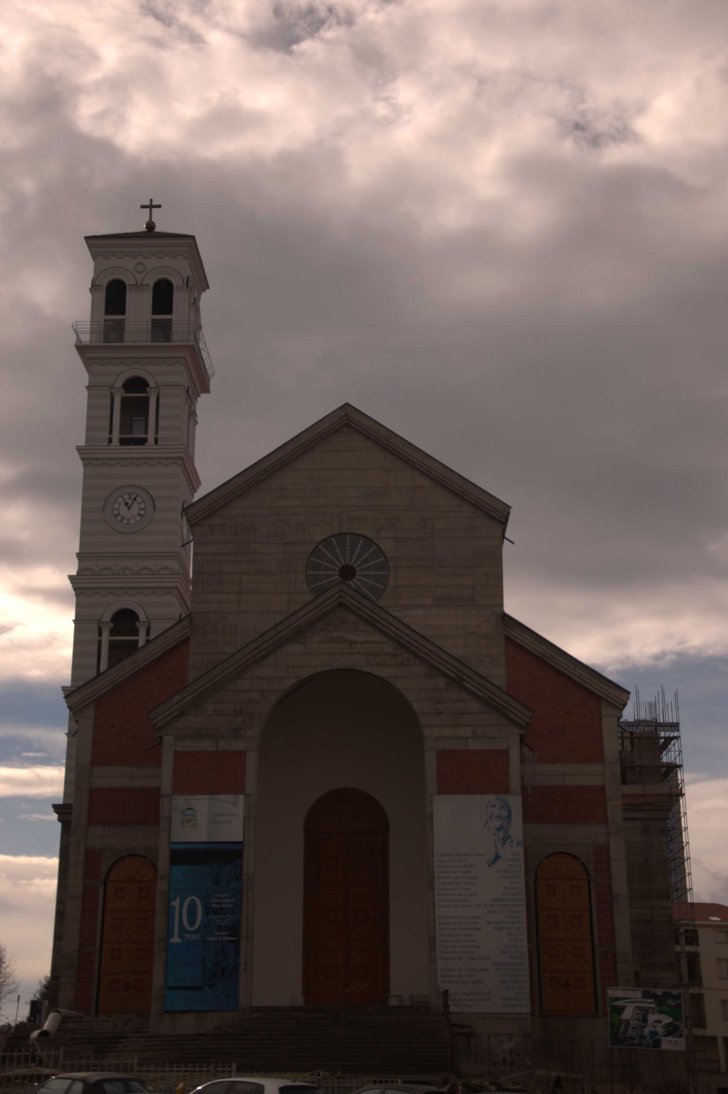 Mother Teresa Cathedral